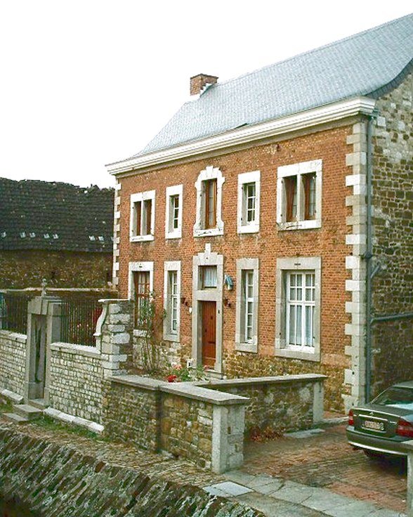 Birthhouse of Jean-Gilles Jacob, circa 1715, in Hermalle-sous-Huy, Belgium. Classified National monument.